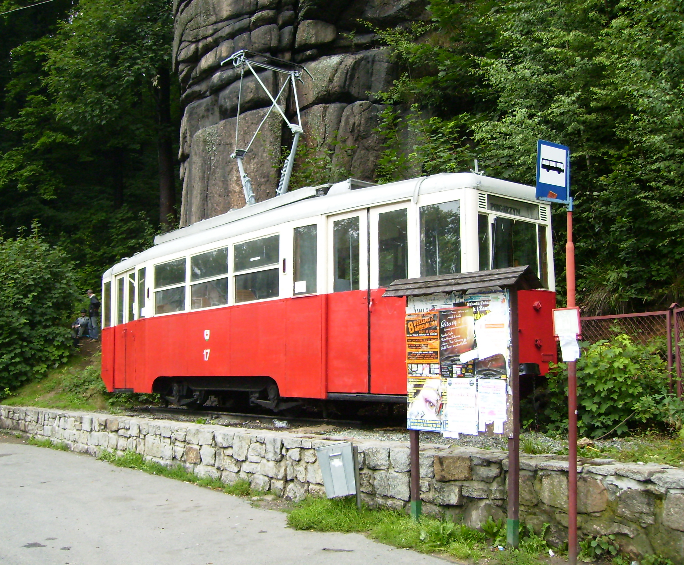 Tram in Podgórzyn (województwo dolnośląskie), Poland. #17.